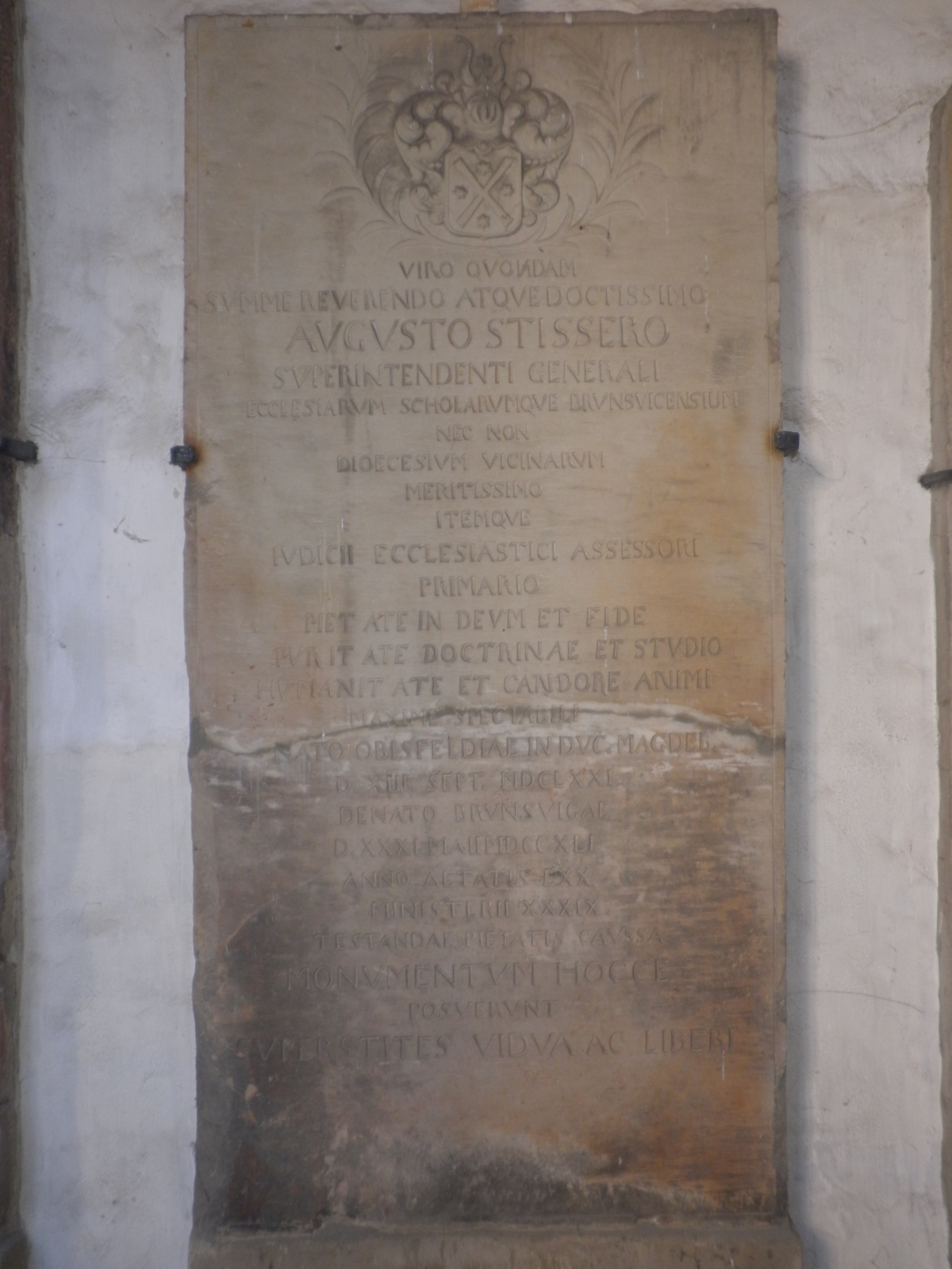 Gravestone of theologian August Stisser in former franciscan monastery Braunschweig